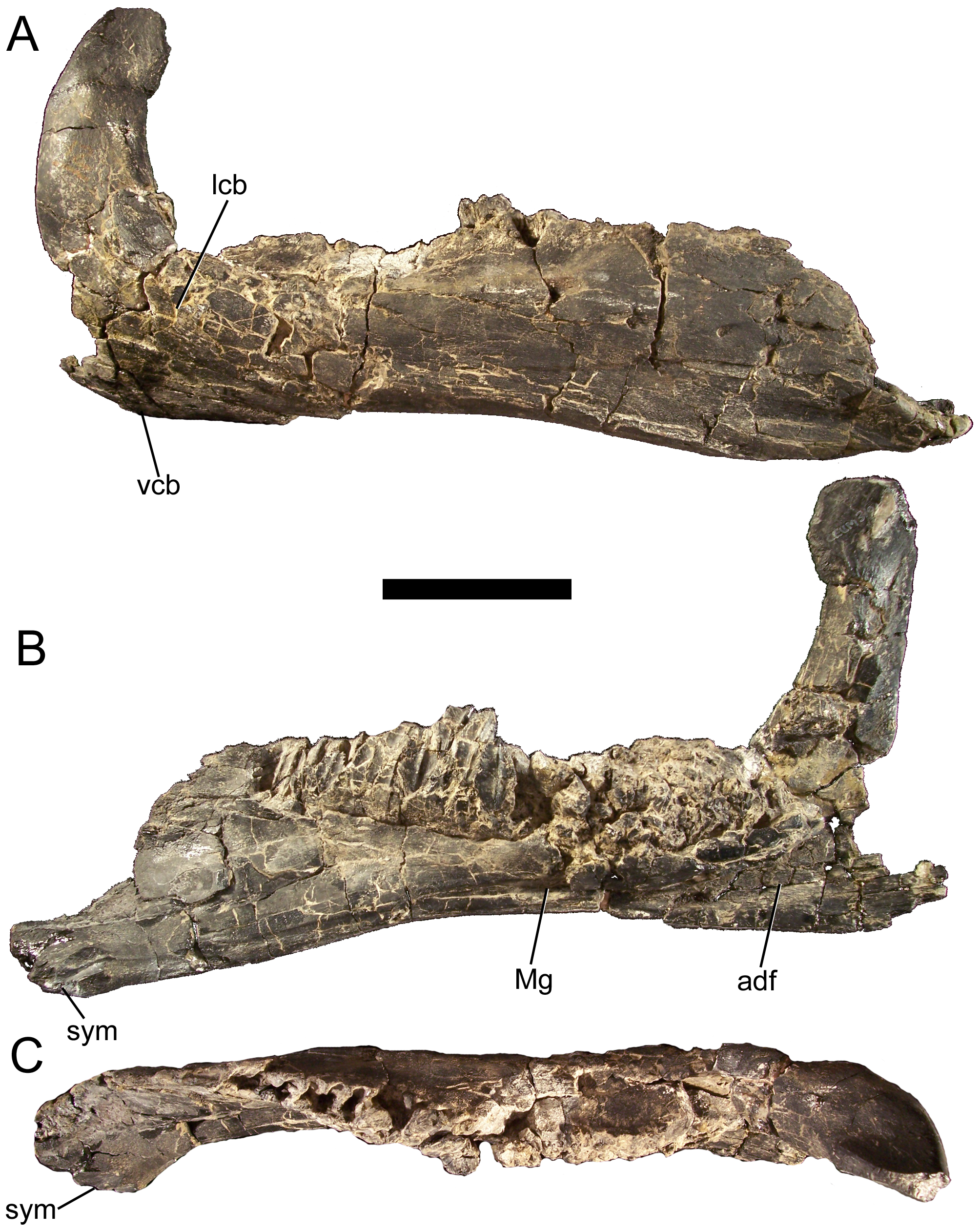 Dentary of Eolambia. Right dentary of CEUM 9758 (holotype) in (A) lateral, (B) medial, and (C) dorsal views. Abbreviations: adf, adductor fossa; lcb, lateral convex bulge; Mg, Meckelian groove; sym, symphysis; vcb, ventral convex bulge. Scale bar equals 10 cm.